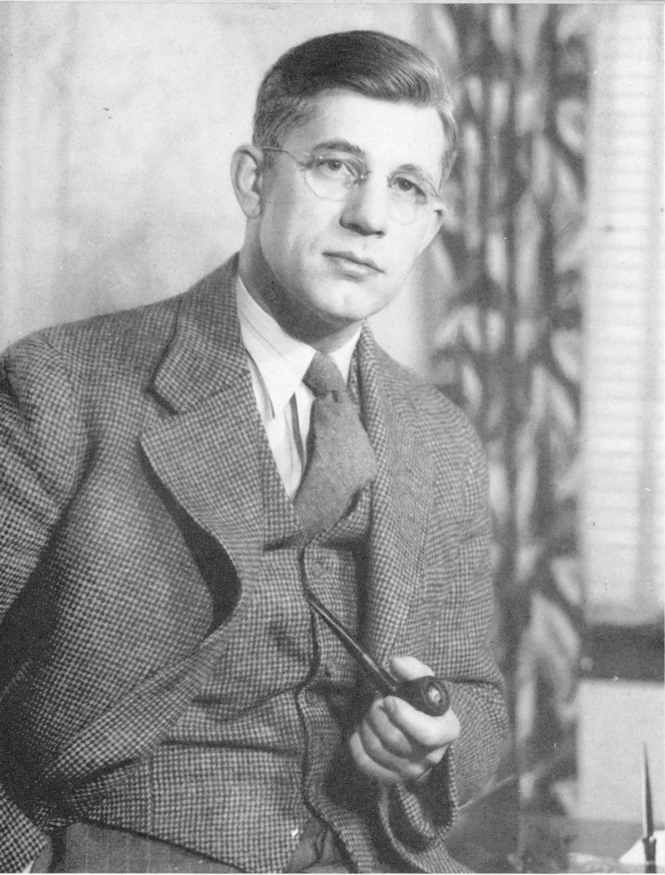 Albert William Trueman (1902 - 1988). Served as President of the University of Manitoba (1945-48) and of University of New Brunswick (1948-53), and as University of Western Ontario (1965-67).